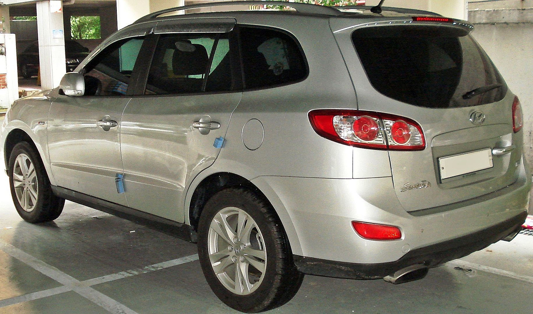 Hyundai Santa Fe The Style